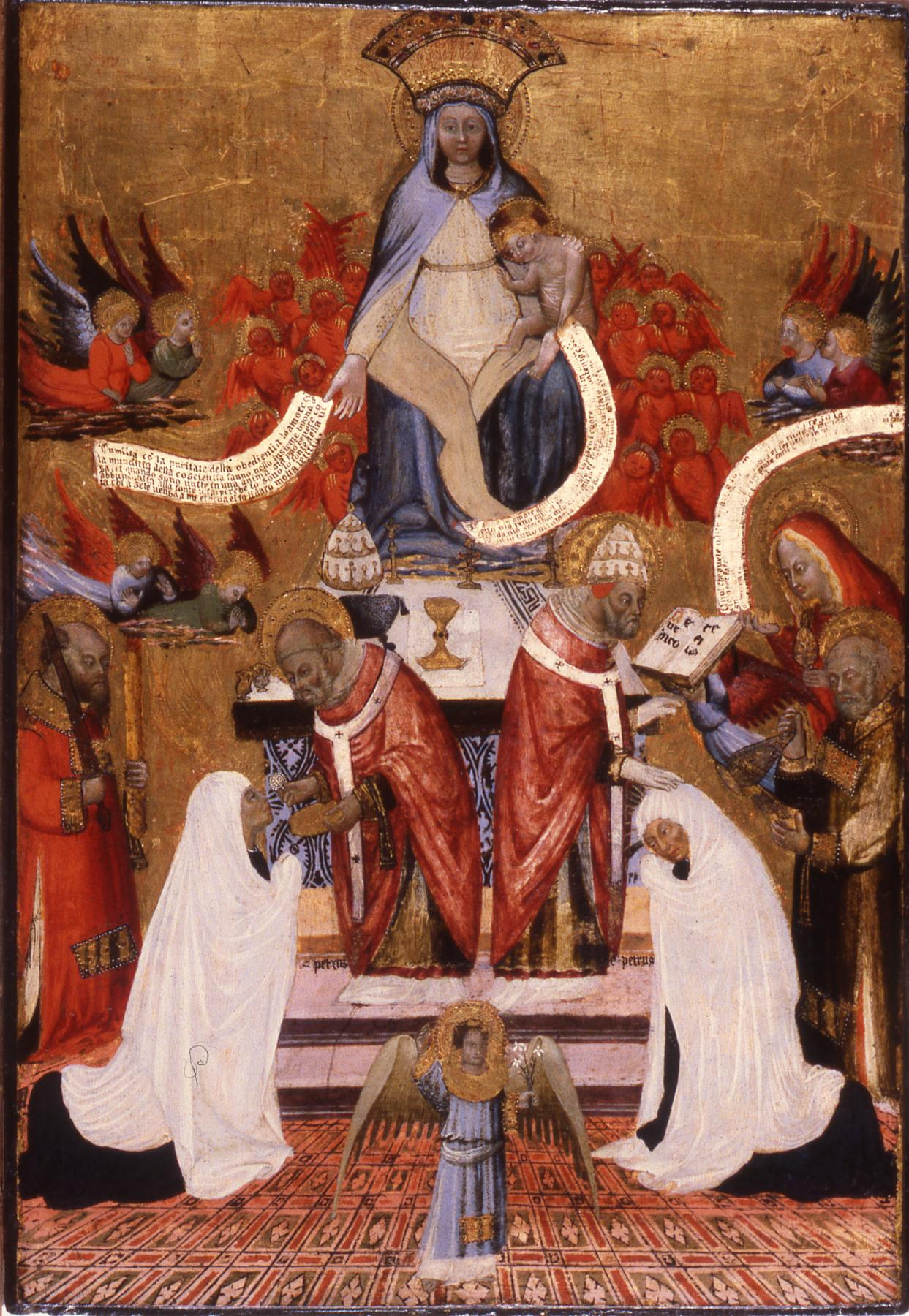 Francesca (1384-1440) was a Roman abbess famous for her mystical visions, of which she left a written account. This panel, together with three others now at The Metropolitan Museum of Art in New York and at the National Gallery in Prague (Czech Republic), probably framed a portrait of her placed at her tomb in the Church of Santa Maria Nova near the Roman Forum. The painting, which stood behind a small altar, was executed most likely in 1445, when the case of the mystic's canonization was presented before the pope. Shown here is a vision that Francesca had at Christmas 1432 and which she described, referring to herself in the third person, as follows: "St. Peter vested himself as a bishop to celebrate the Sacrifice, and he washed and purified the handmaid of Christ in that fountain of mercy, and afterwards he gave her the most holy sacrament of the Body of Christ. And St. Paul and St. Benedict served St. Peter in the celebration of the mass, and the blessed Magdalene assisted at the office, for so it was the divine will, that there should be three witnesses thereat. And when the mass was done, blessed Peter consecrated the handmaid of Christ. . . ." St. Peter, first bishop of Rome, is depicted twice, with a papal crown. Paul is holding the sword by which, according to legend, he died at the hands of the pagans.